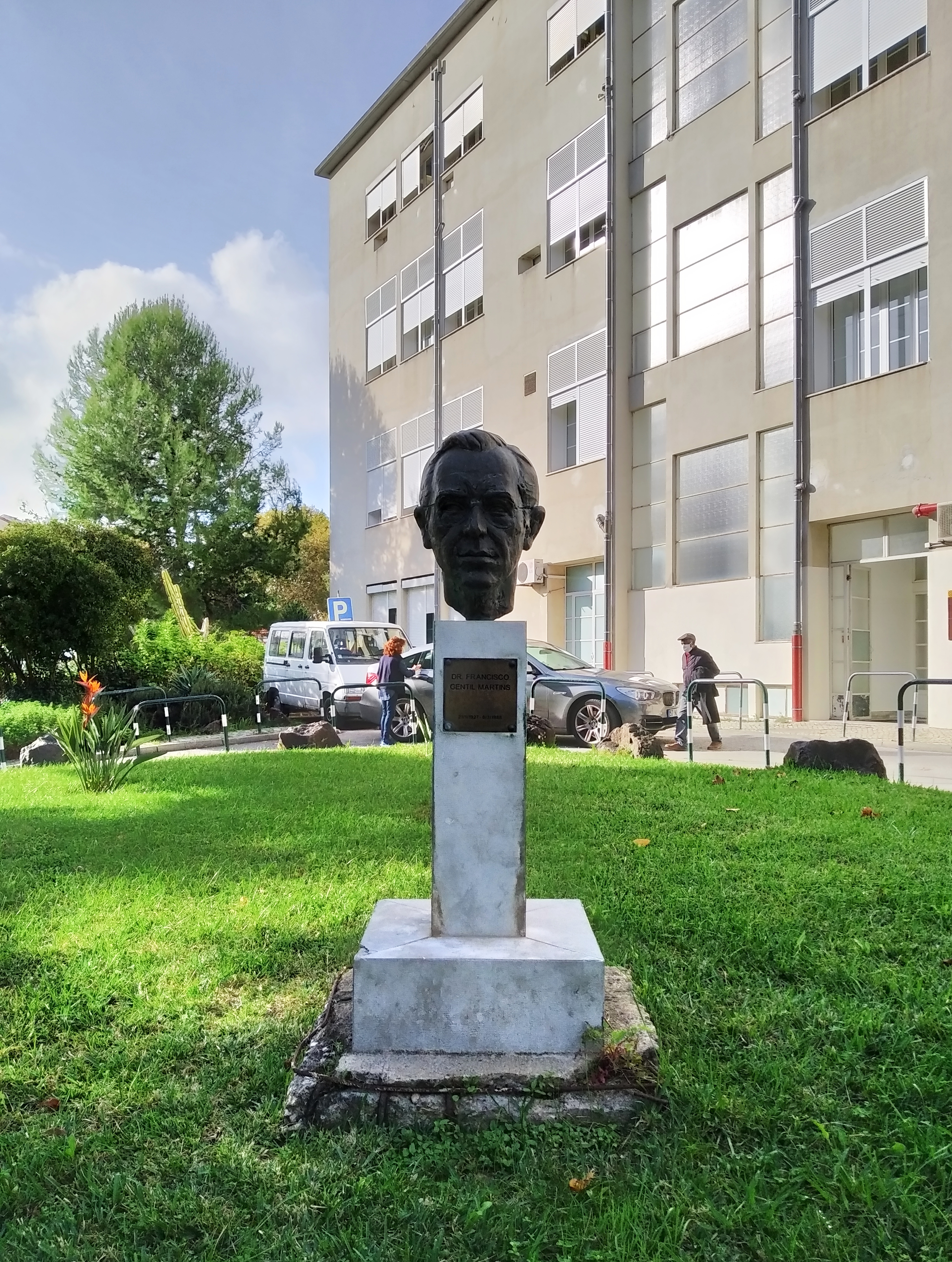 Bust of Dr. Francisco Gentil Martins outside the Portuguese Institute of Oncology, Lisbon